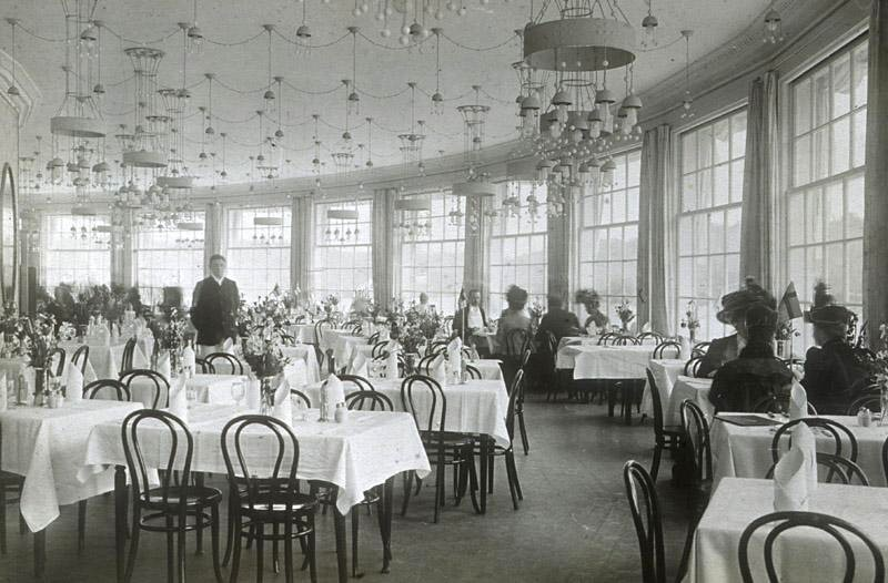 Konstindustriutställningen 1909 in Stockholm